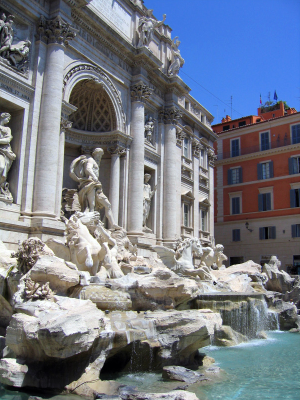 Trevi Fountain, Rome, Italy.